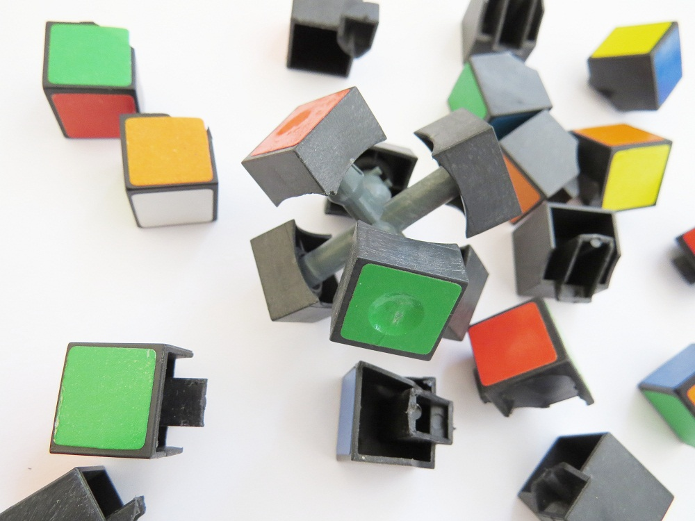 Rubik's Cube